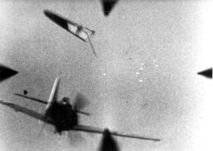 Photo of the shoot down of a German Focke-Wulf Fw 190A by a fighter of the USAAF XIX Tactical Air Command in 1944-45. Note the cockpit canopy flying off, as the German pilot prepares to bail out.